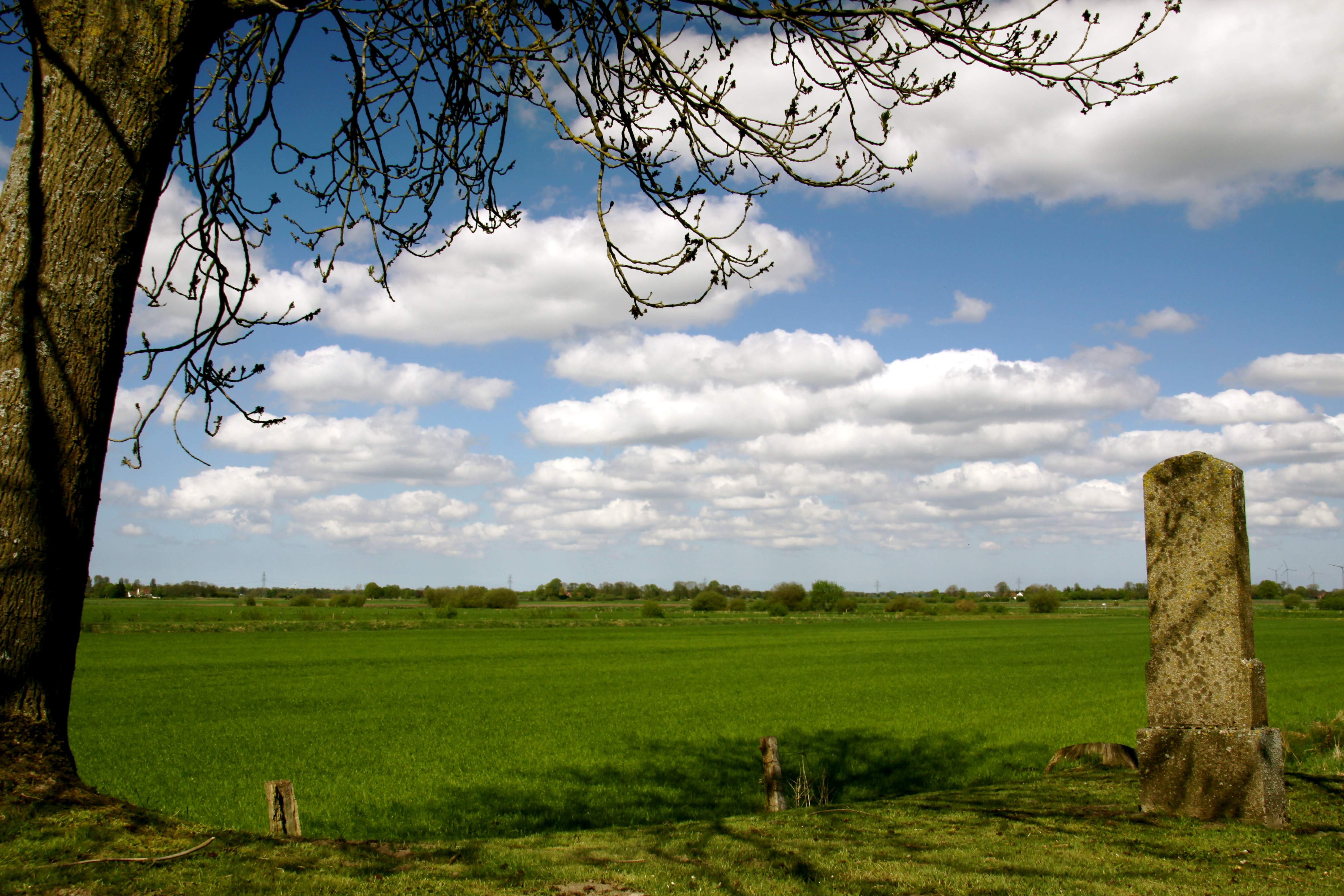 Blick auf die Landschaft vom historischen Friedhof an der Hookswieke in Jheringsfehn.